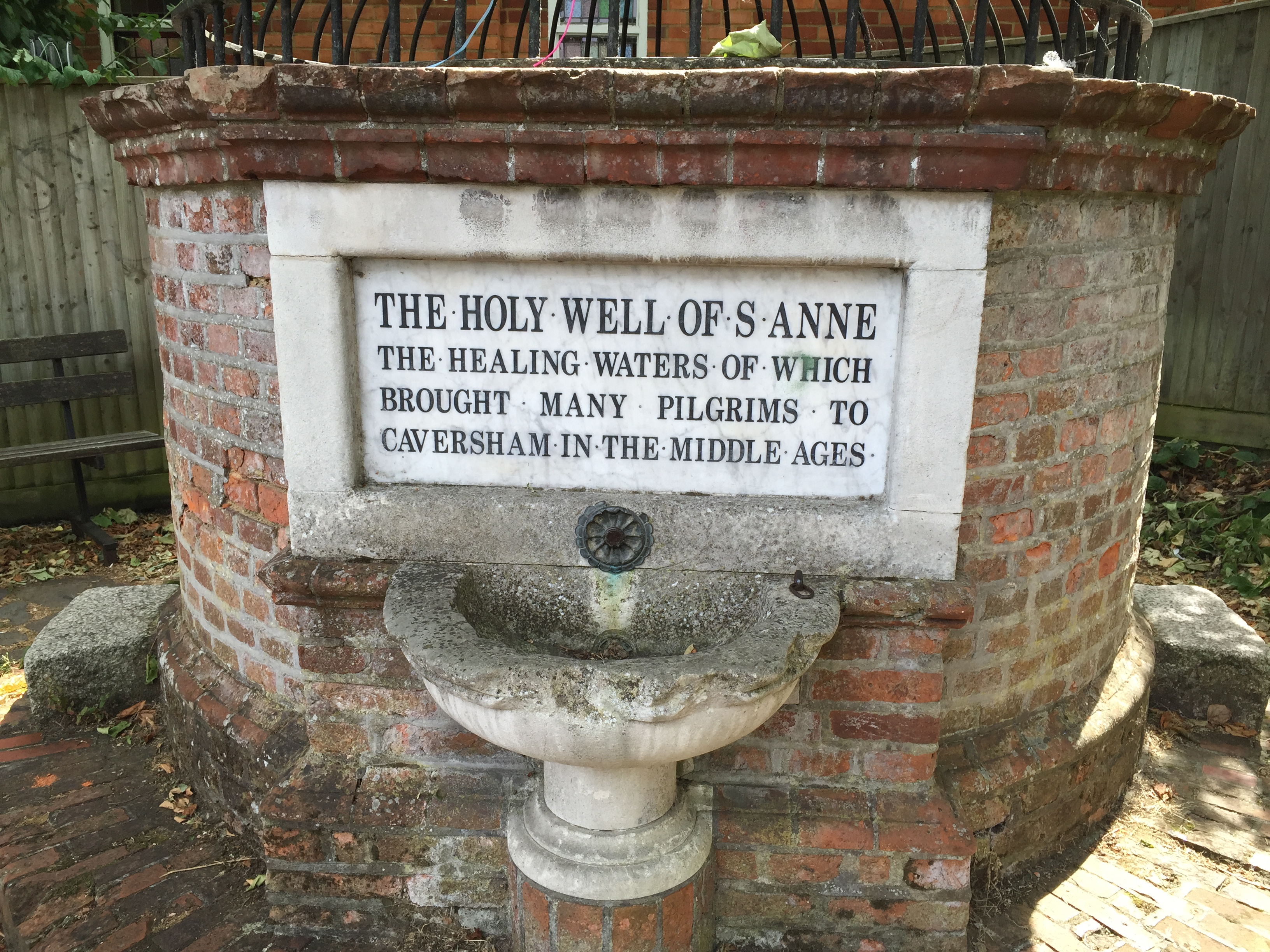 The Holy Well of Saint Anne on Priest Hill near its junction with St. Anne's Road in Caversham, Reading, Berkshire, England, UK. The well, and a nearby "little Chapel on the Bridge" which is no longer extant, date back to medieval times. The well's mineral waters were believed by pilgrims to have healing powers. The location of the well was lost until 1906 when it was discovered by workmen. The memorial drinking fountain and cover of the well were built and dedicated in 1908.